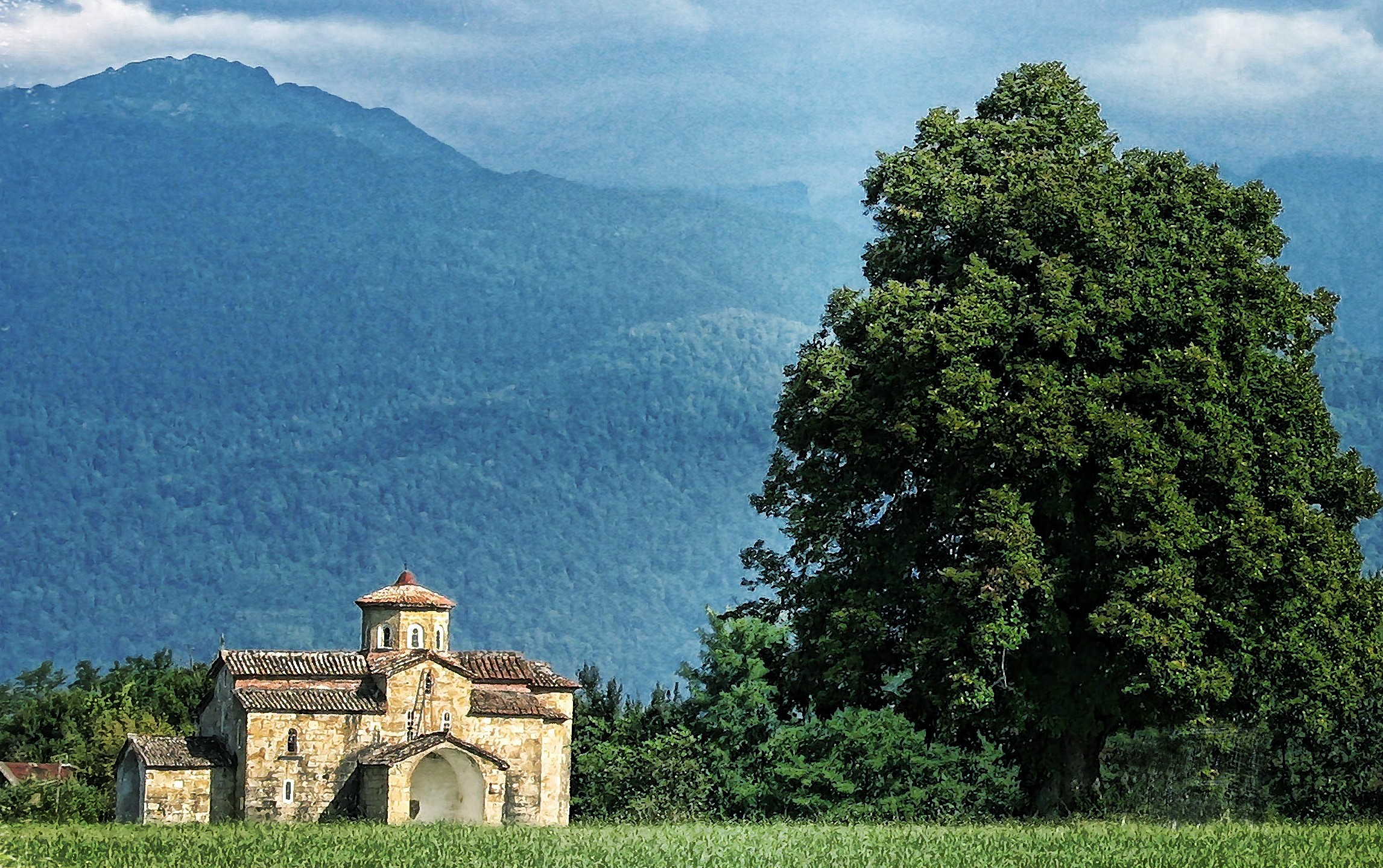 Likhni church in Abkhazia, Georgia. The church was built in Byzantine style in the X-XI centuries.